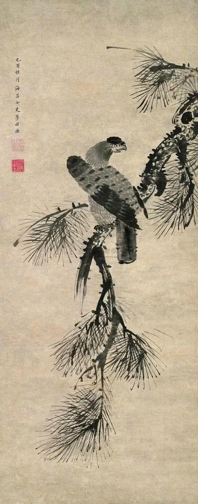 Painting by woman artist and poet Li Yin of the Ming and Qing dynasties